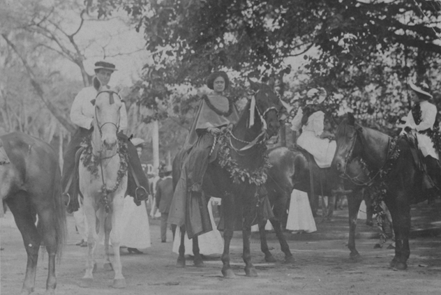 Pāʻū riders on the island of Hawaii in floral parade. Rose Davidson & Miss Wilhelmina.